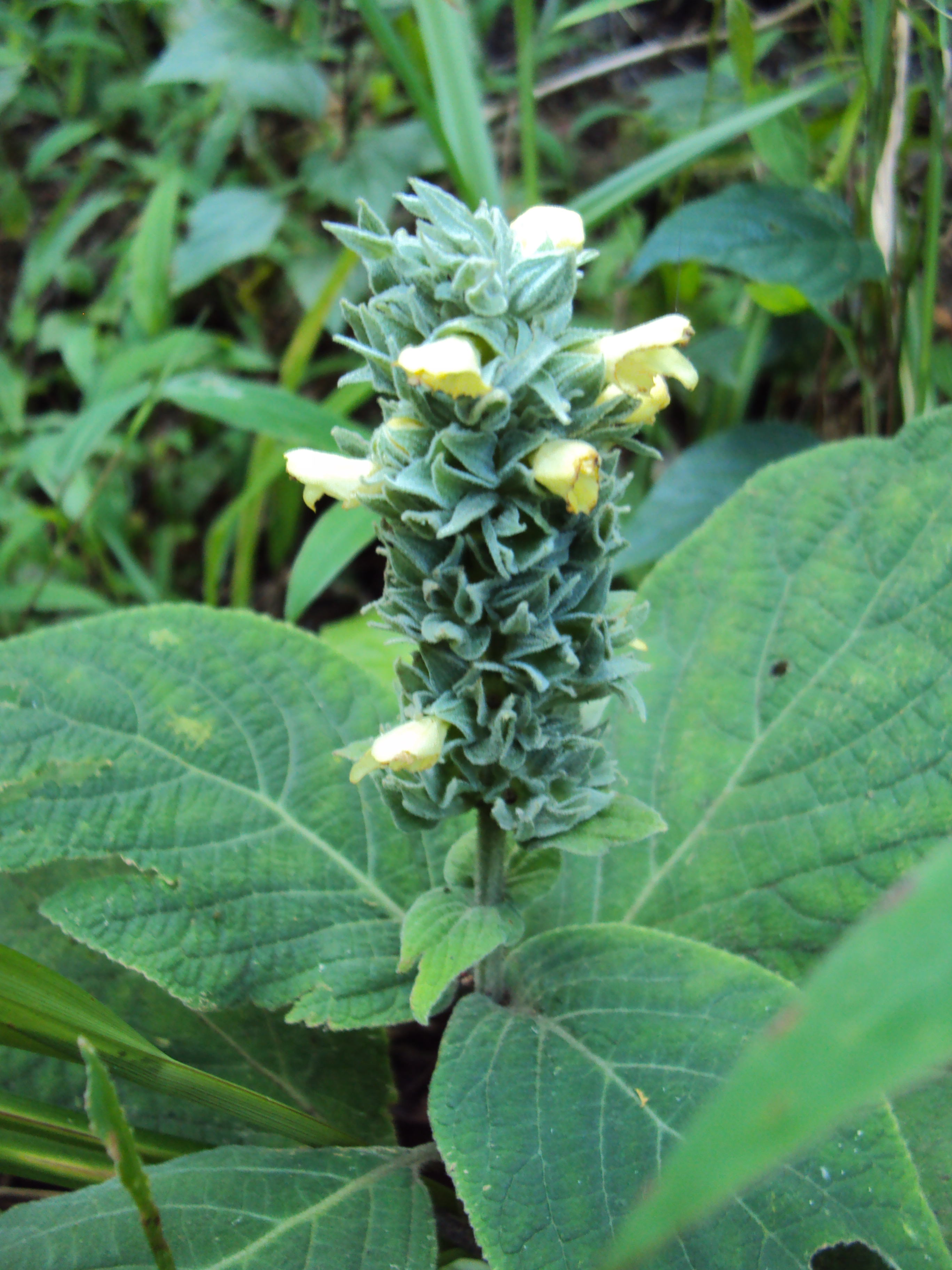 Gomphostemma heyneanum var. heyneanum